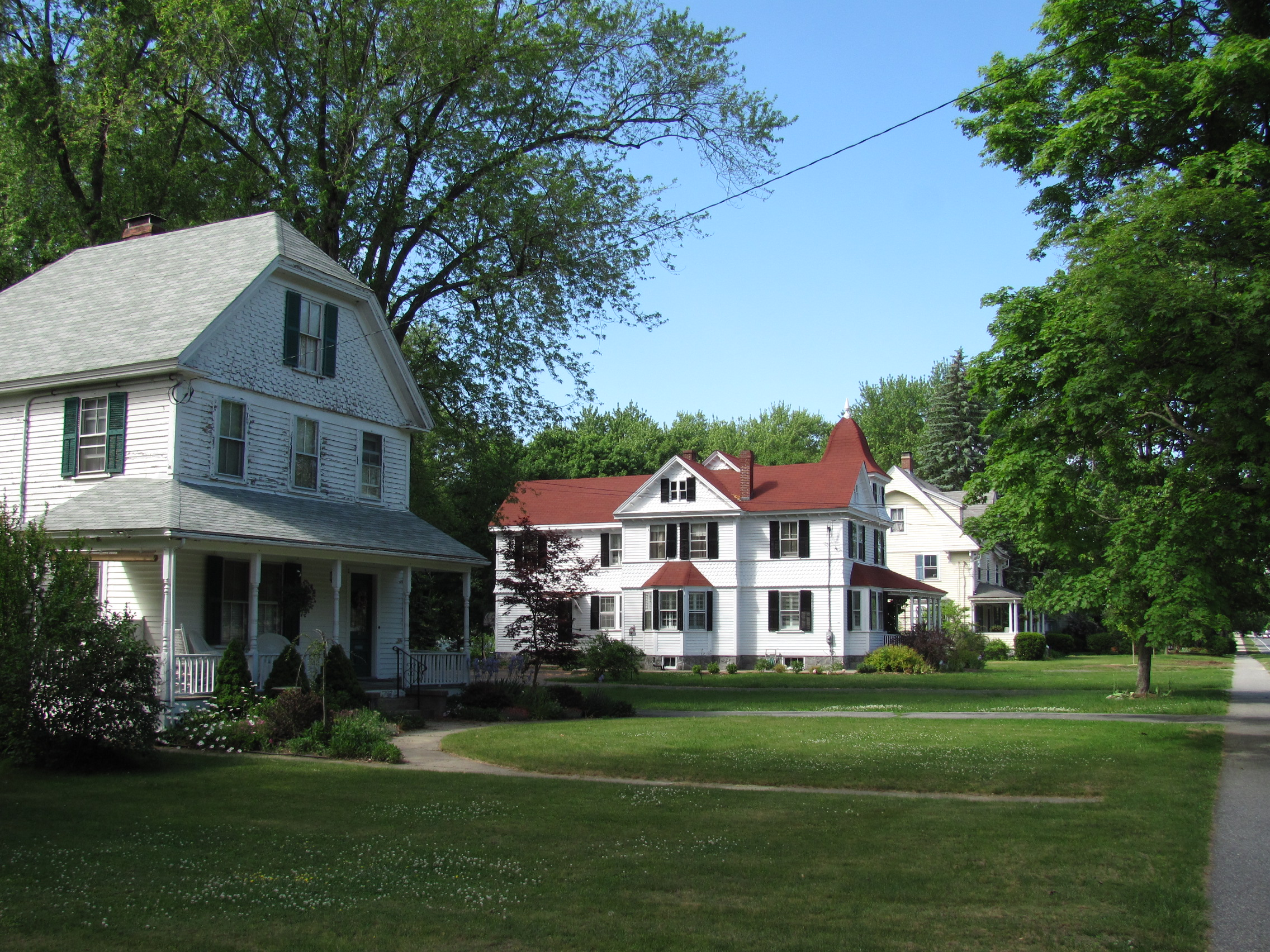 Church Street, Wilmington Massachusetts, May 2010